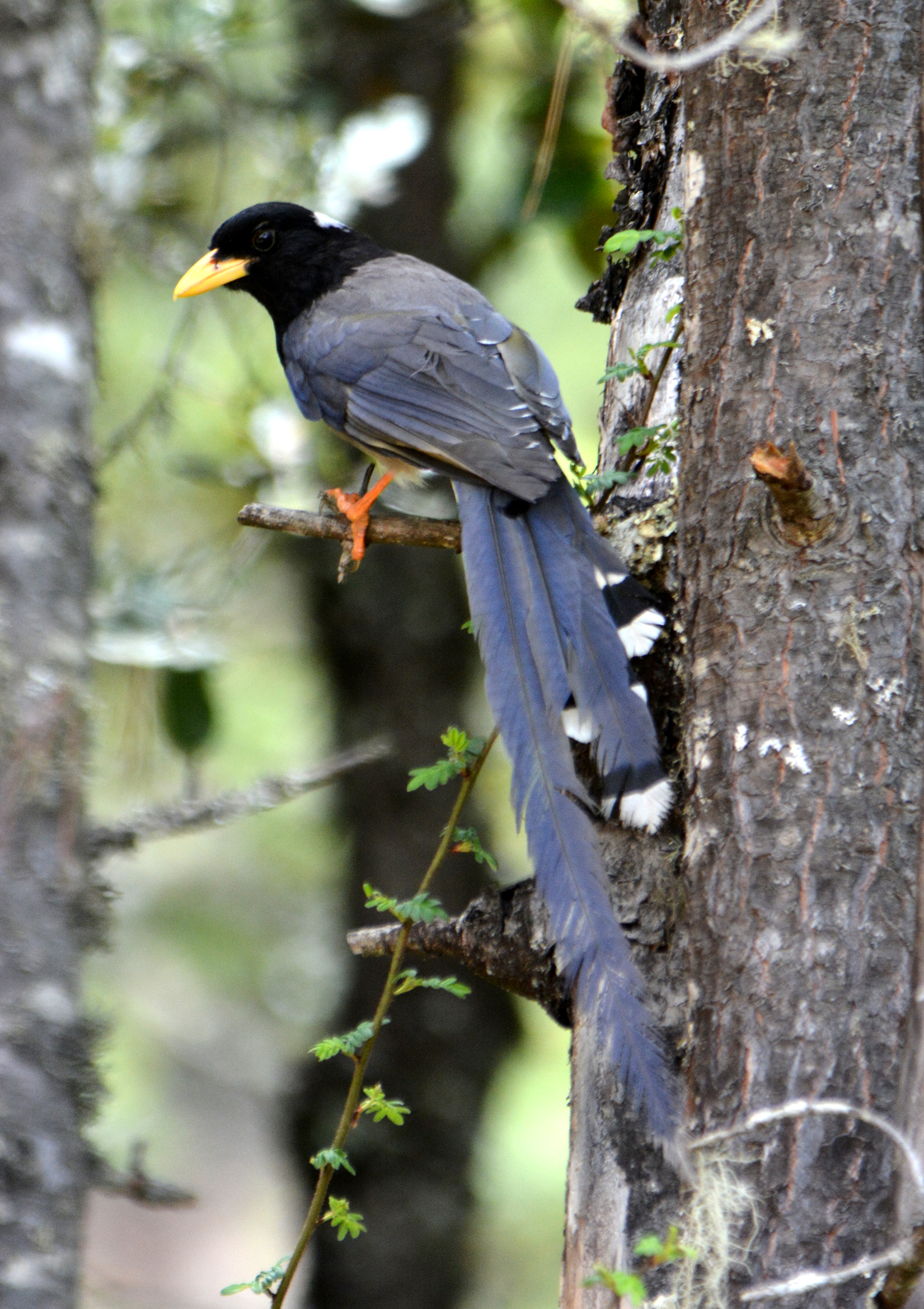 Yellow-billed Blue Magpie Urocissa flavirostris by Dr Raju Kasambe. Photo taken in Bhutan.